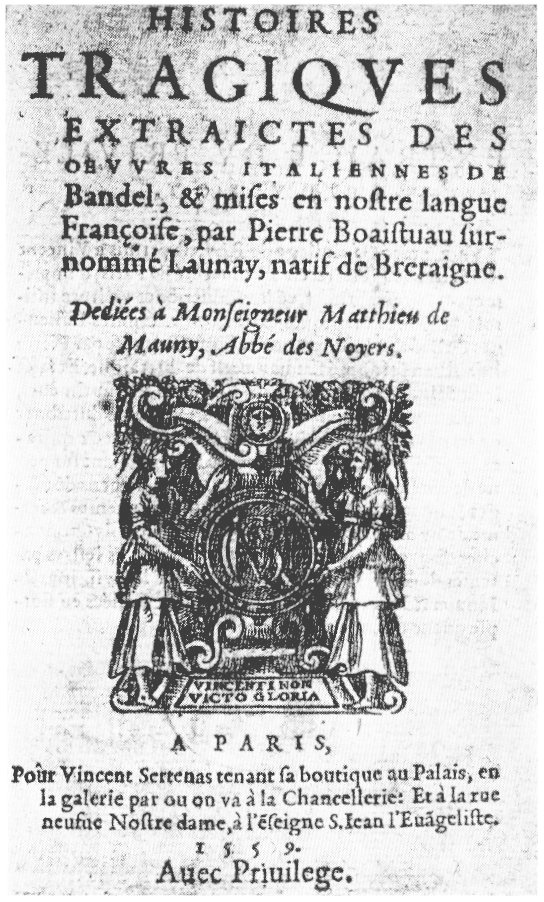 Francis de Bellefort's Histoires Tragiques de Bandel (title) - the source of several of Shakespeare's works, including Hamlet and Romeo and Juliet.